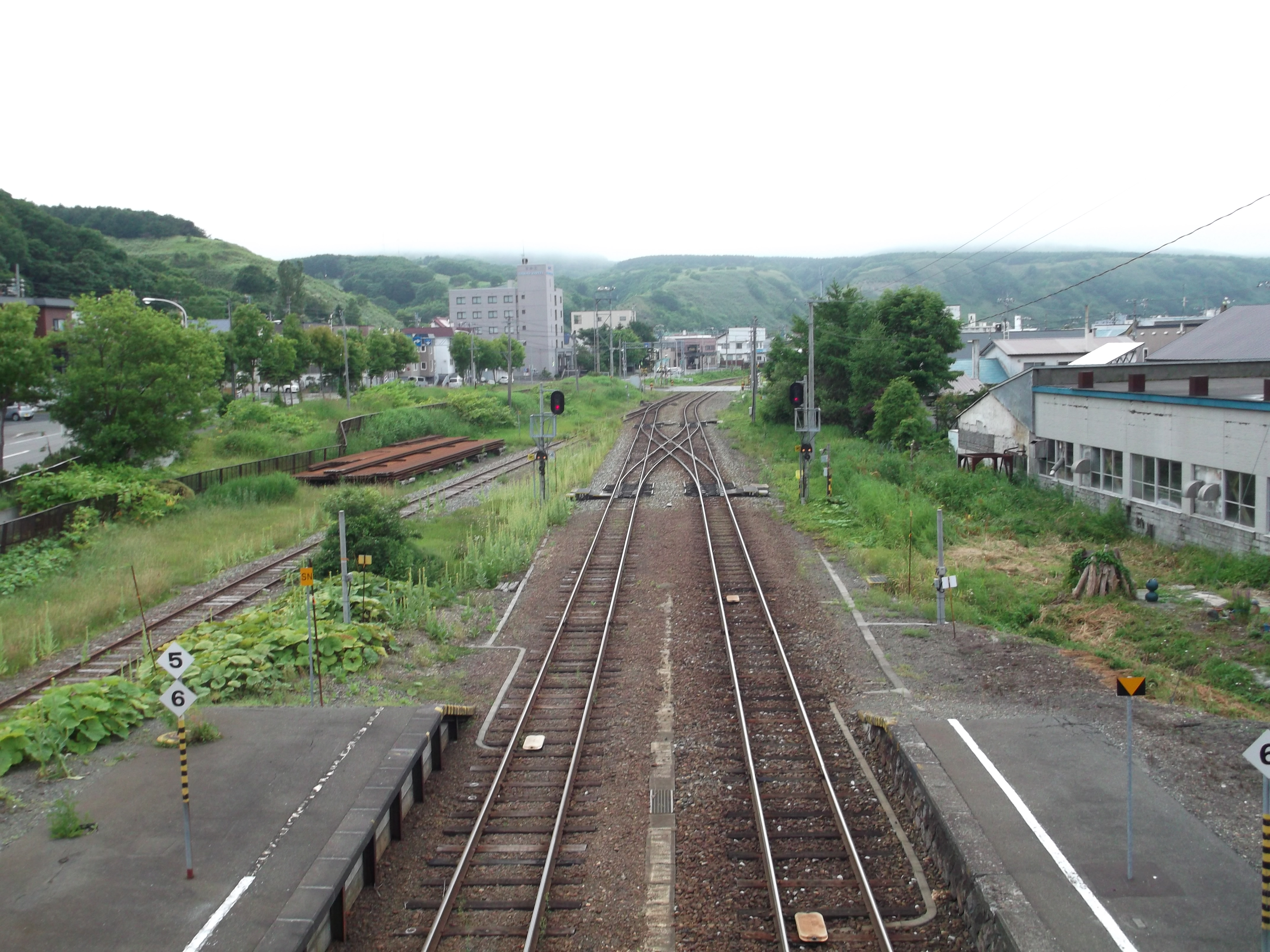 JR Hokkaido Soya Main Line Minami-Wakkanai Station, view from the overbridge towards Wakkanai